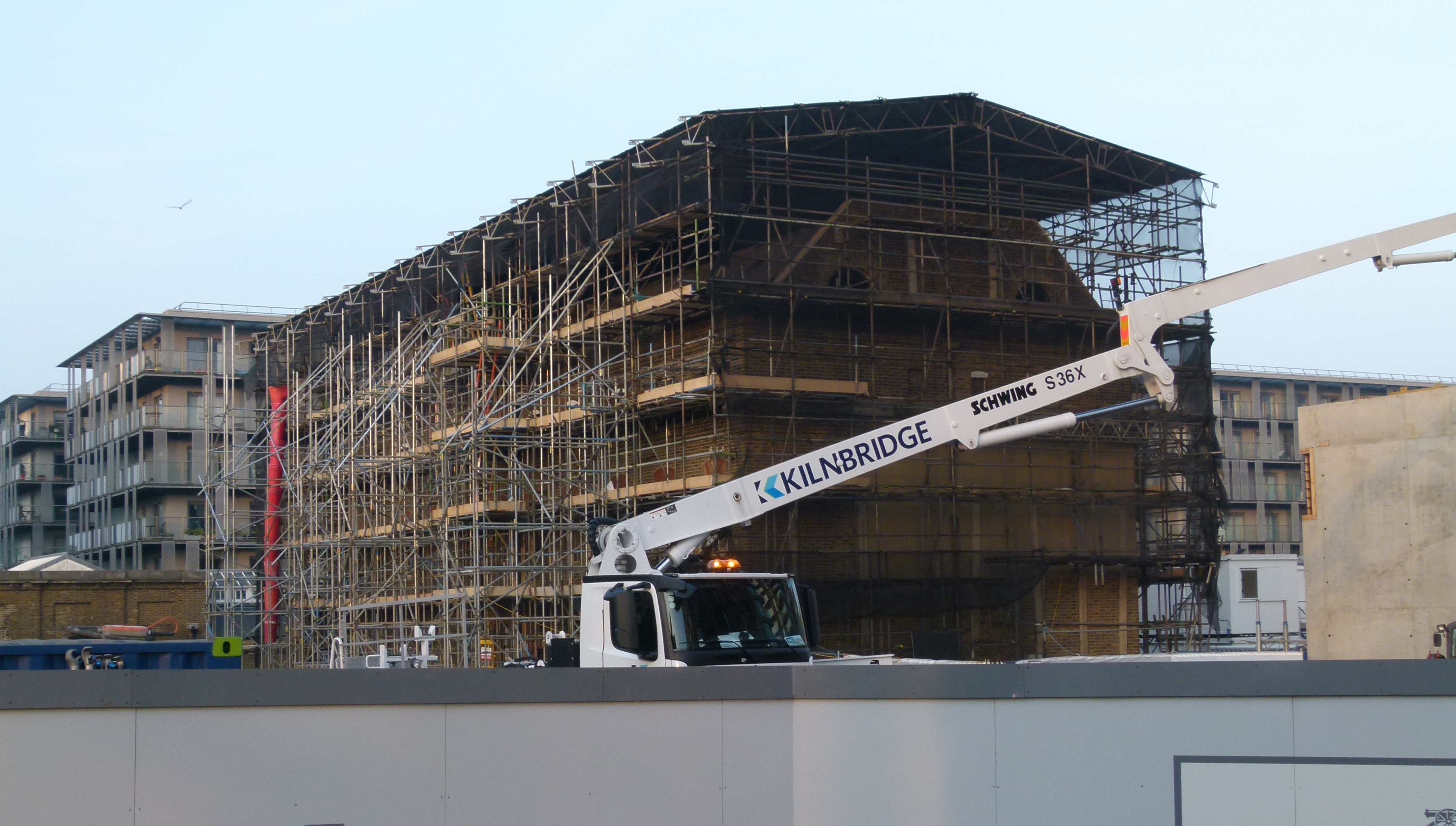 Renovation of Officers' House at Royal Arsenal near the Crossrail Station construction site in Woolwich, southeast London, UK.